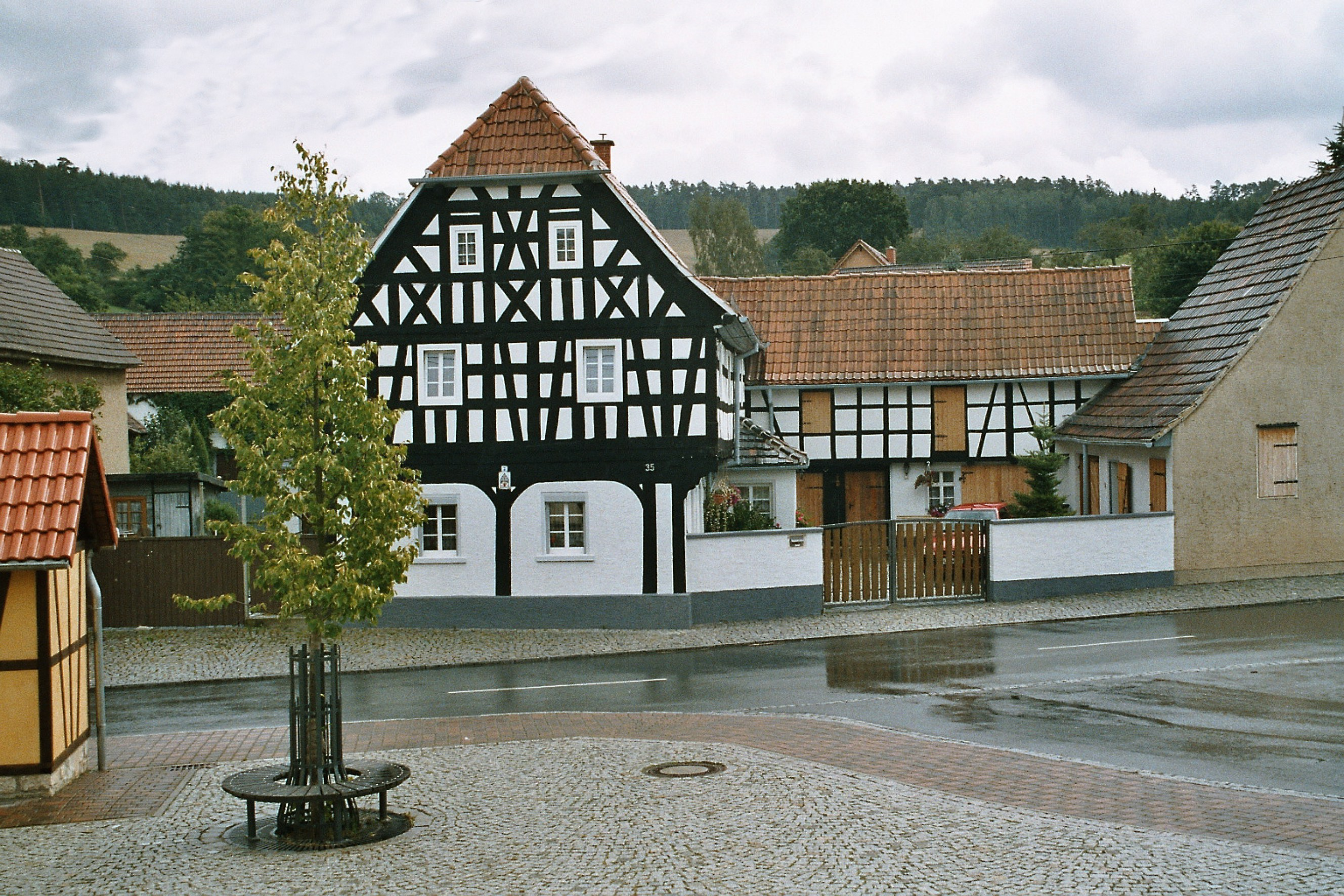 Niederndorf (Kraftsdorf), Upper Lusatian house